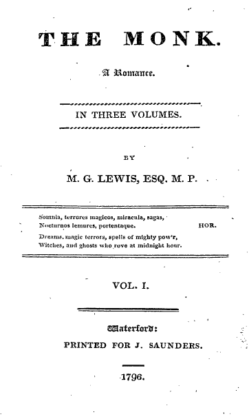 The Monk's title page.